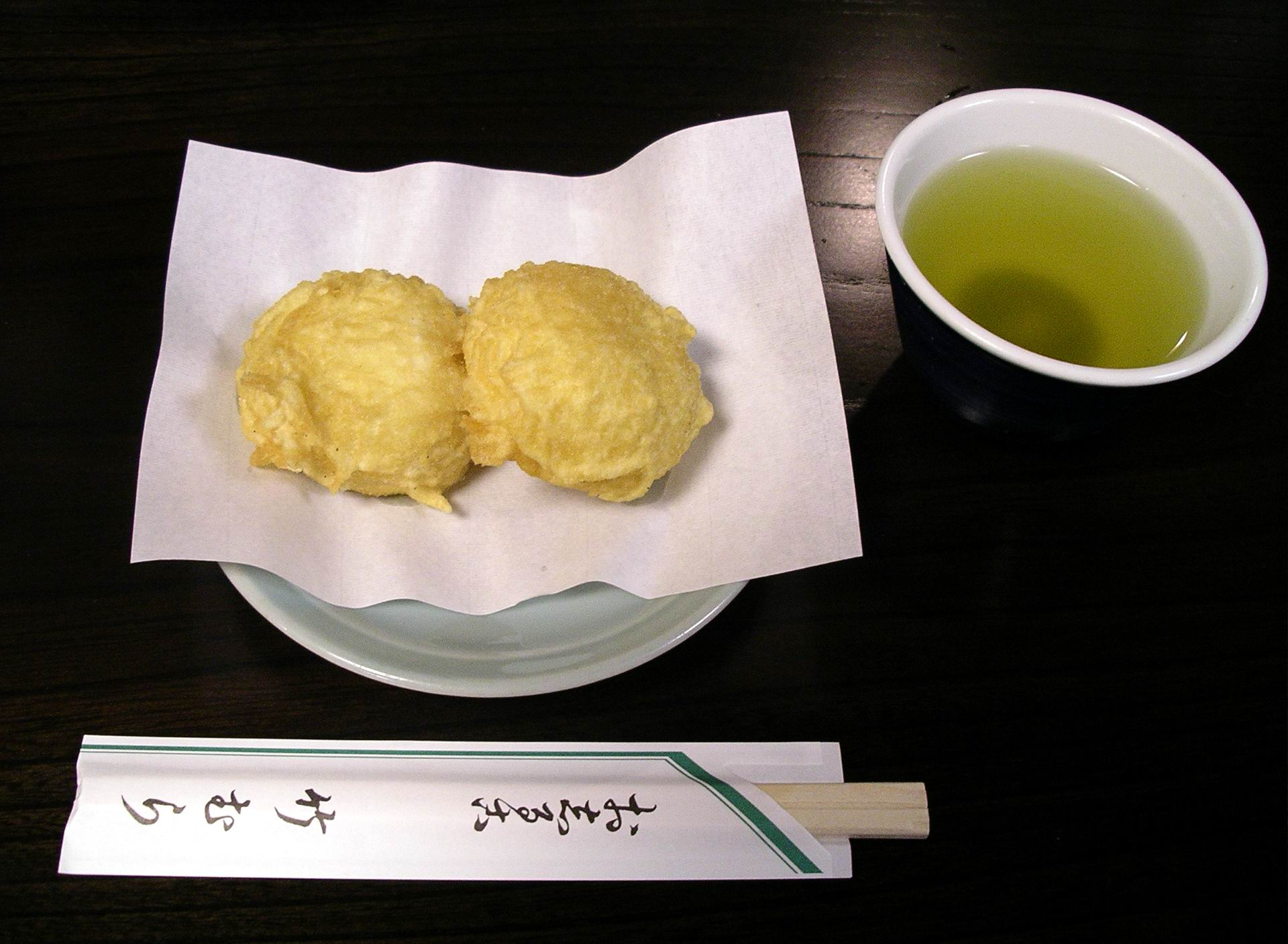 Agemanju (deep-fried buns stuffed with sweet red bean paste) at Takemura[1] in Kanda Awajicho, Tokyo.Blue LotusTakemura